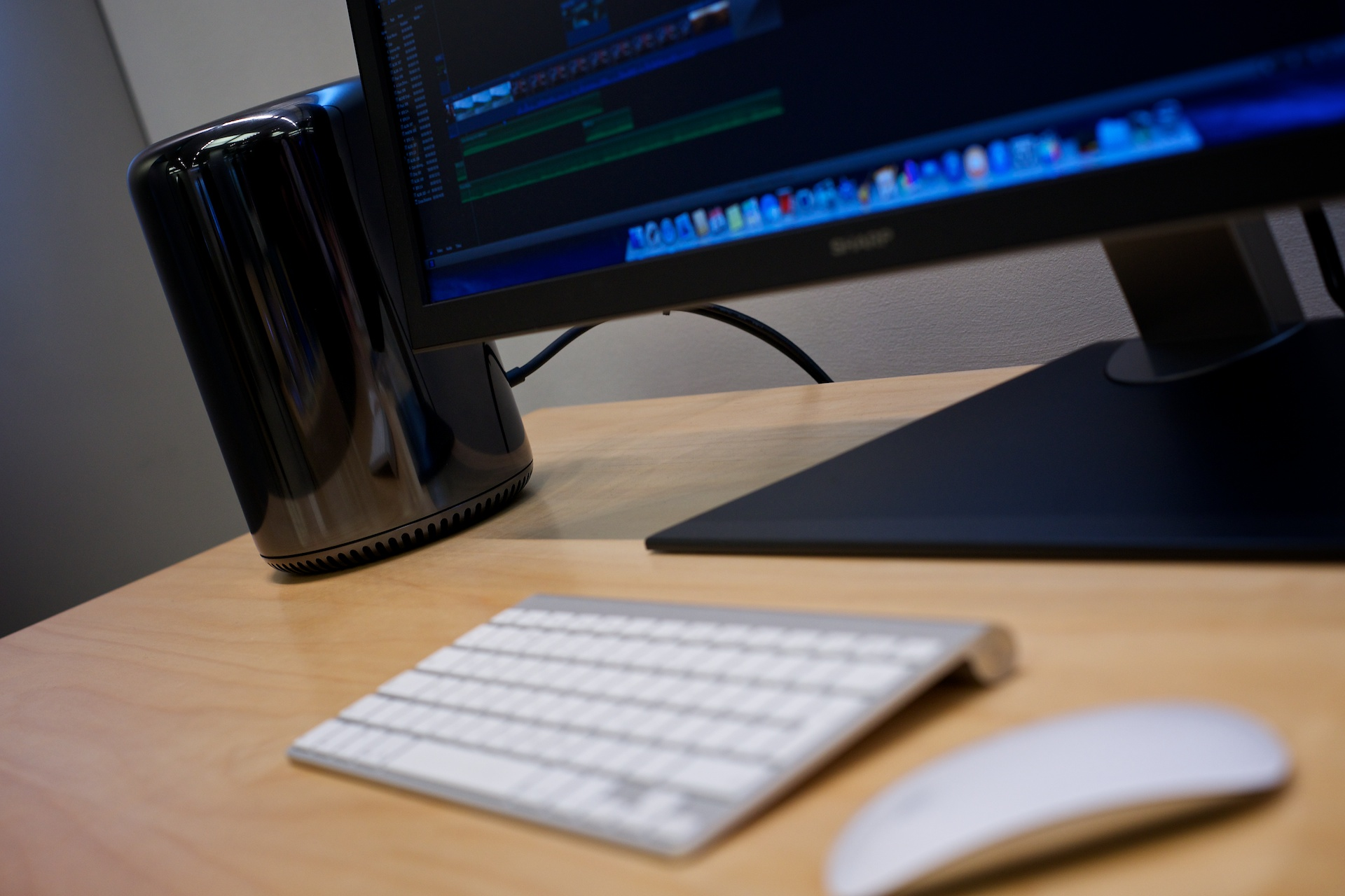 Mac Pro setup